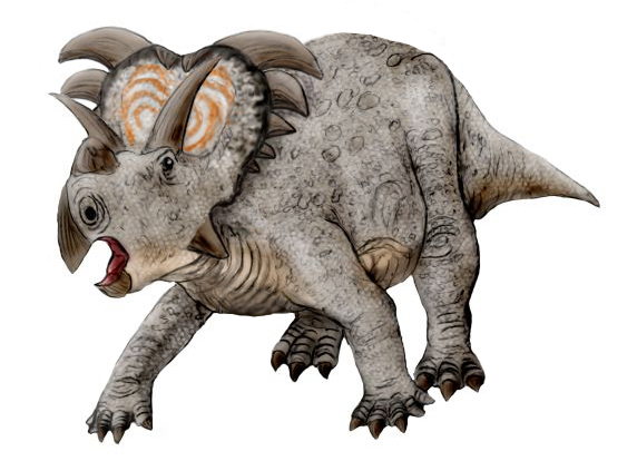 Medusaceratops